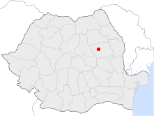 Location of Moinești in Romania.